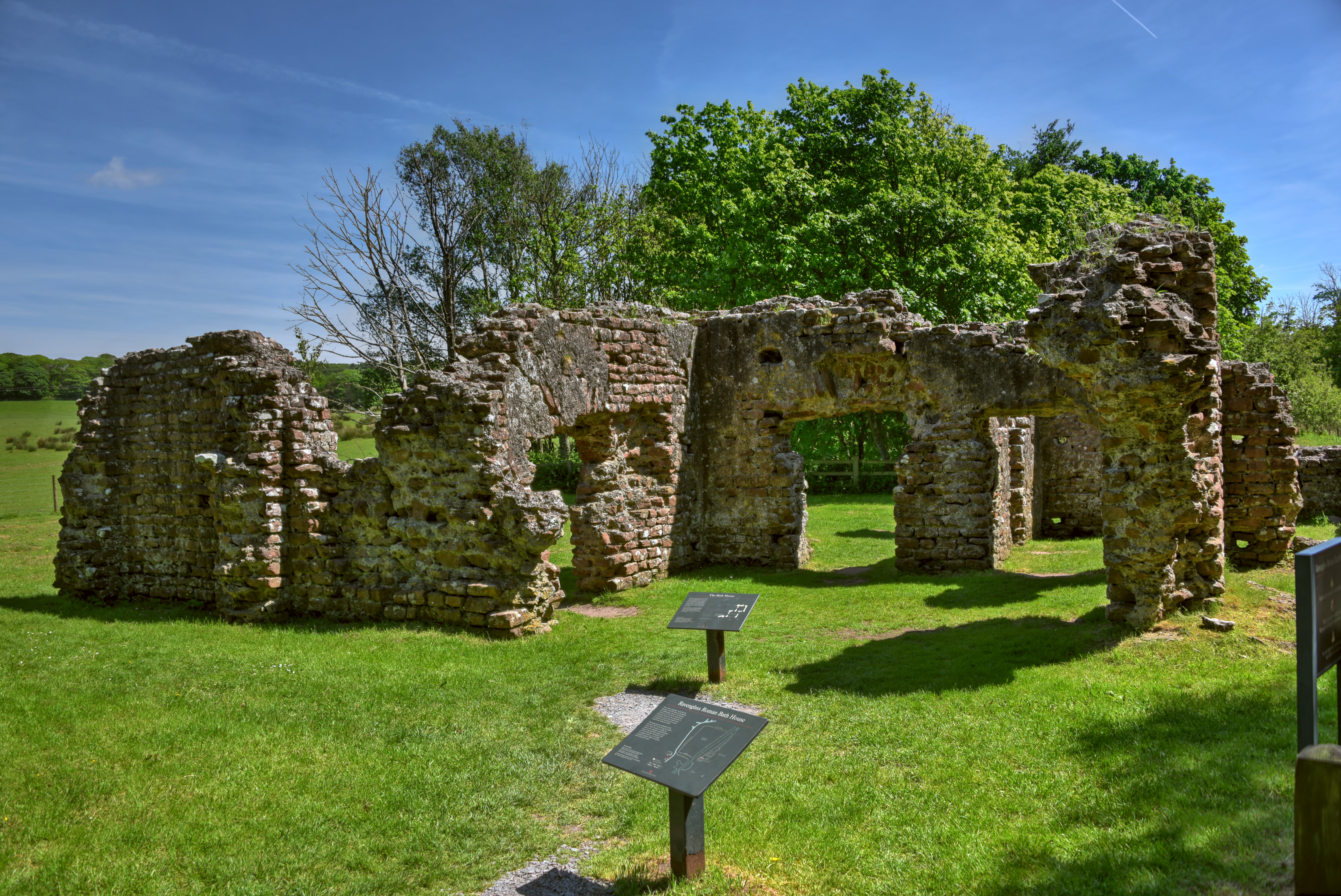 An old Roman bathhouse near the village of Ravenglass, in England's Lake District.